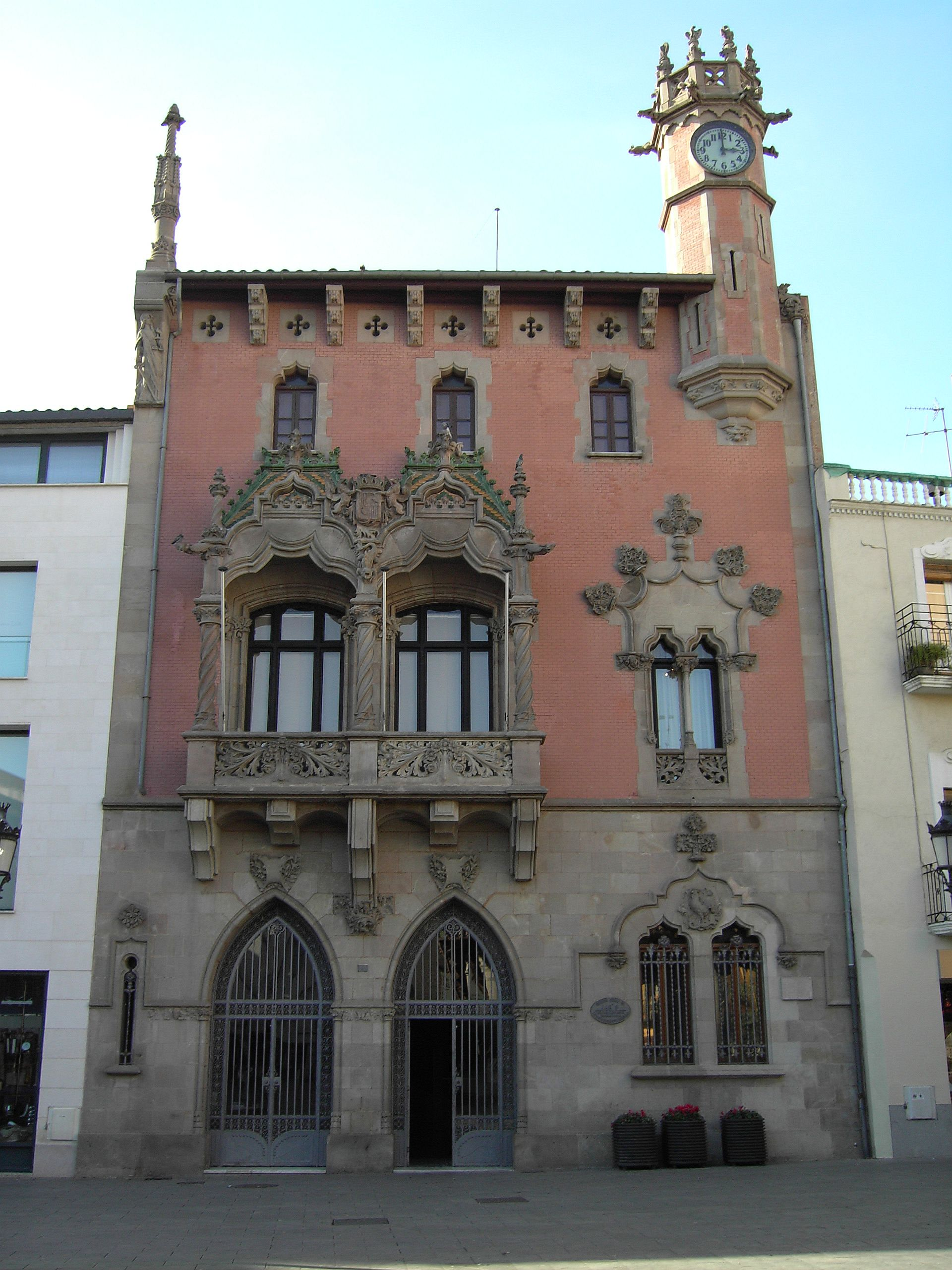 Granollers city hall, Catalonia